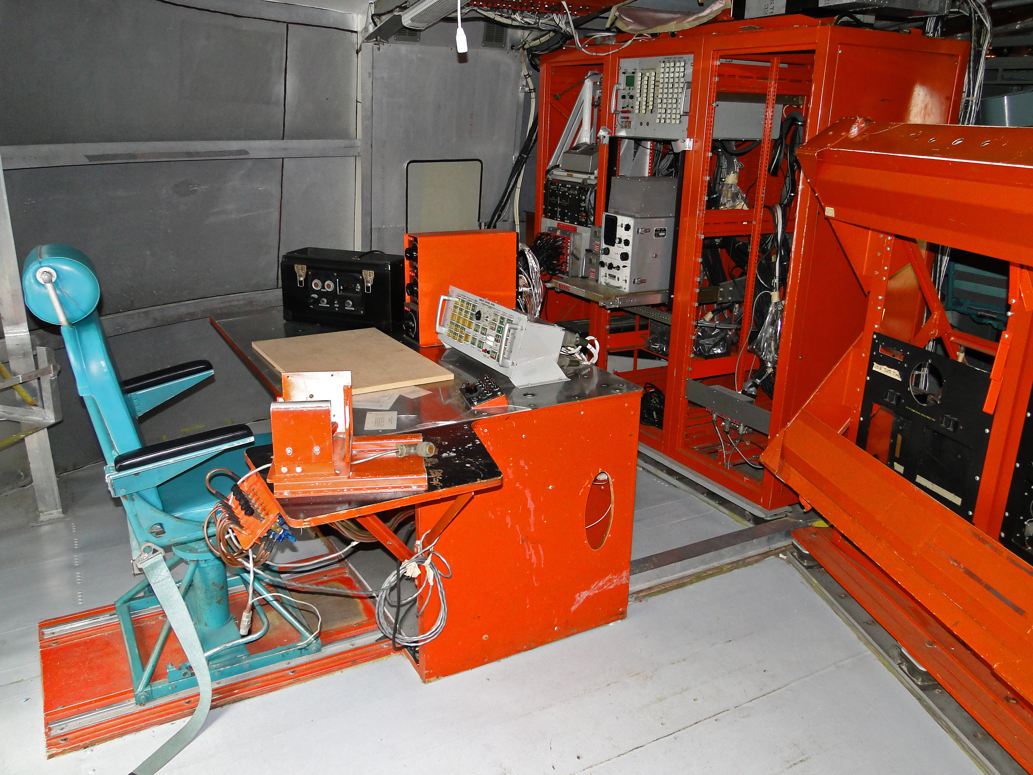 Control room of the hydrofoil HMCS Bras d'Or, Musée maritime du Québec, l'Islet, Canada